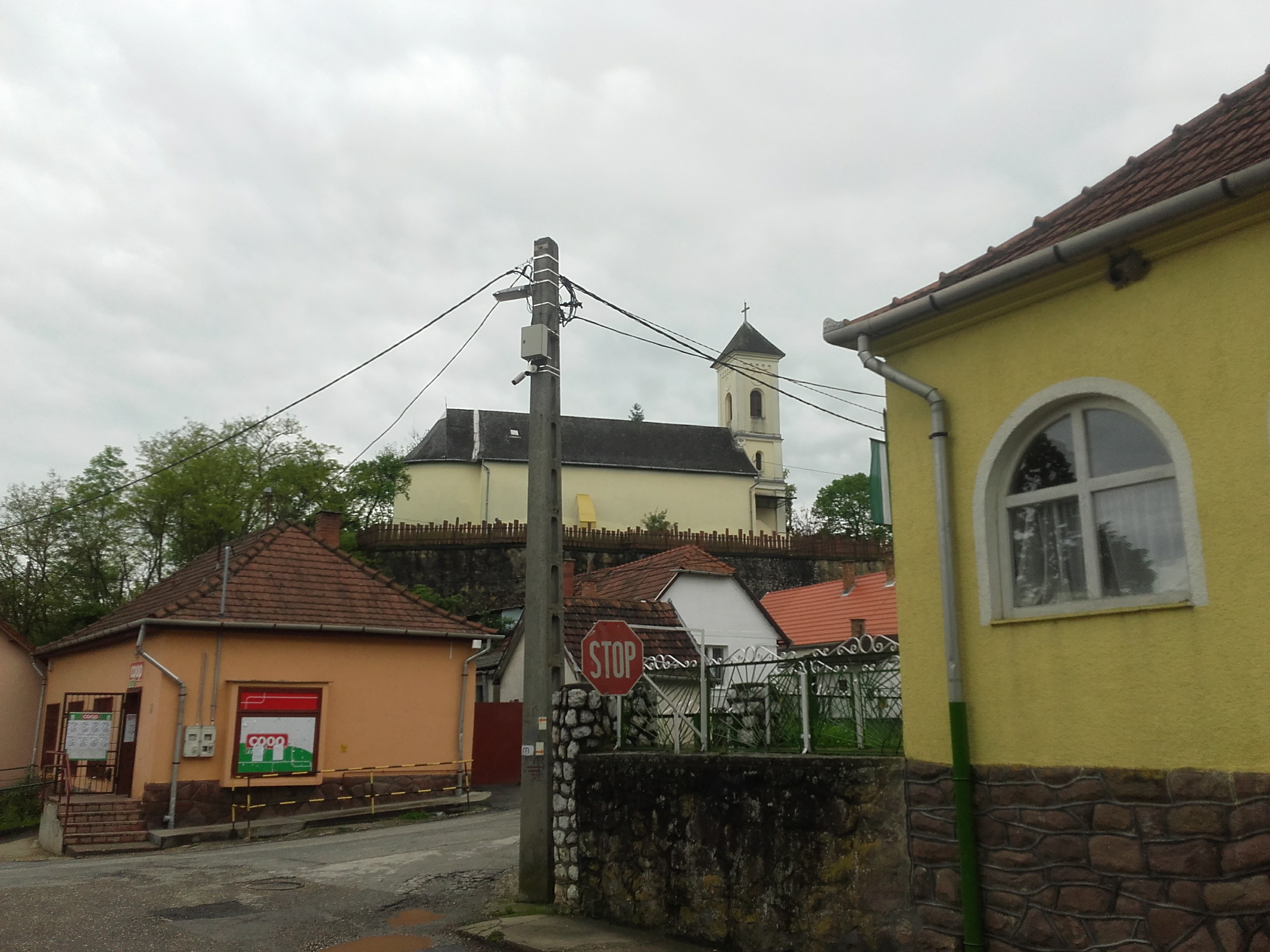 View of Kács, Hungary, with the Romanesque Roman Catholic chuch